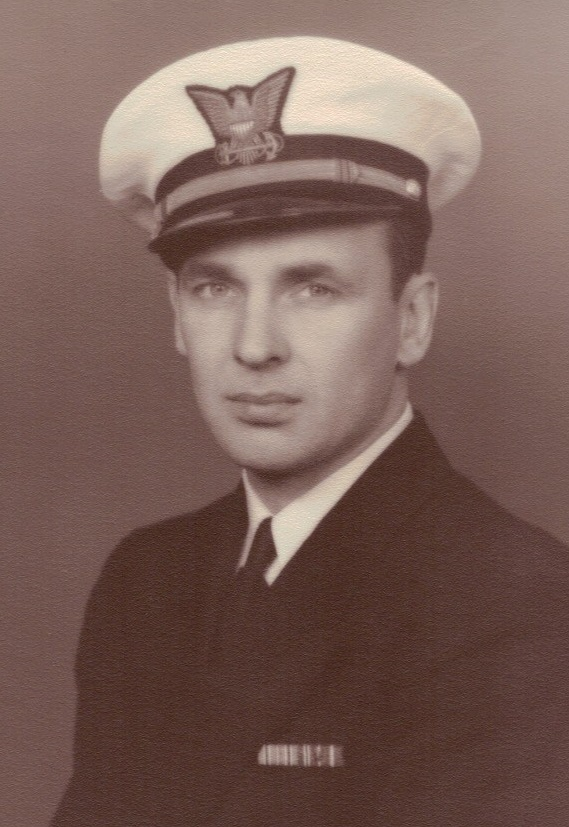 Warren C. Gill (1912-1987) was a Coast Guard officer and Oregon state legislator; during World War II Gill was one of only six coast guardsmen to be awarded the Navy Cross; he later served in the Oregon House of Representative and the Oregon State Senate